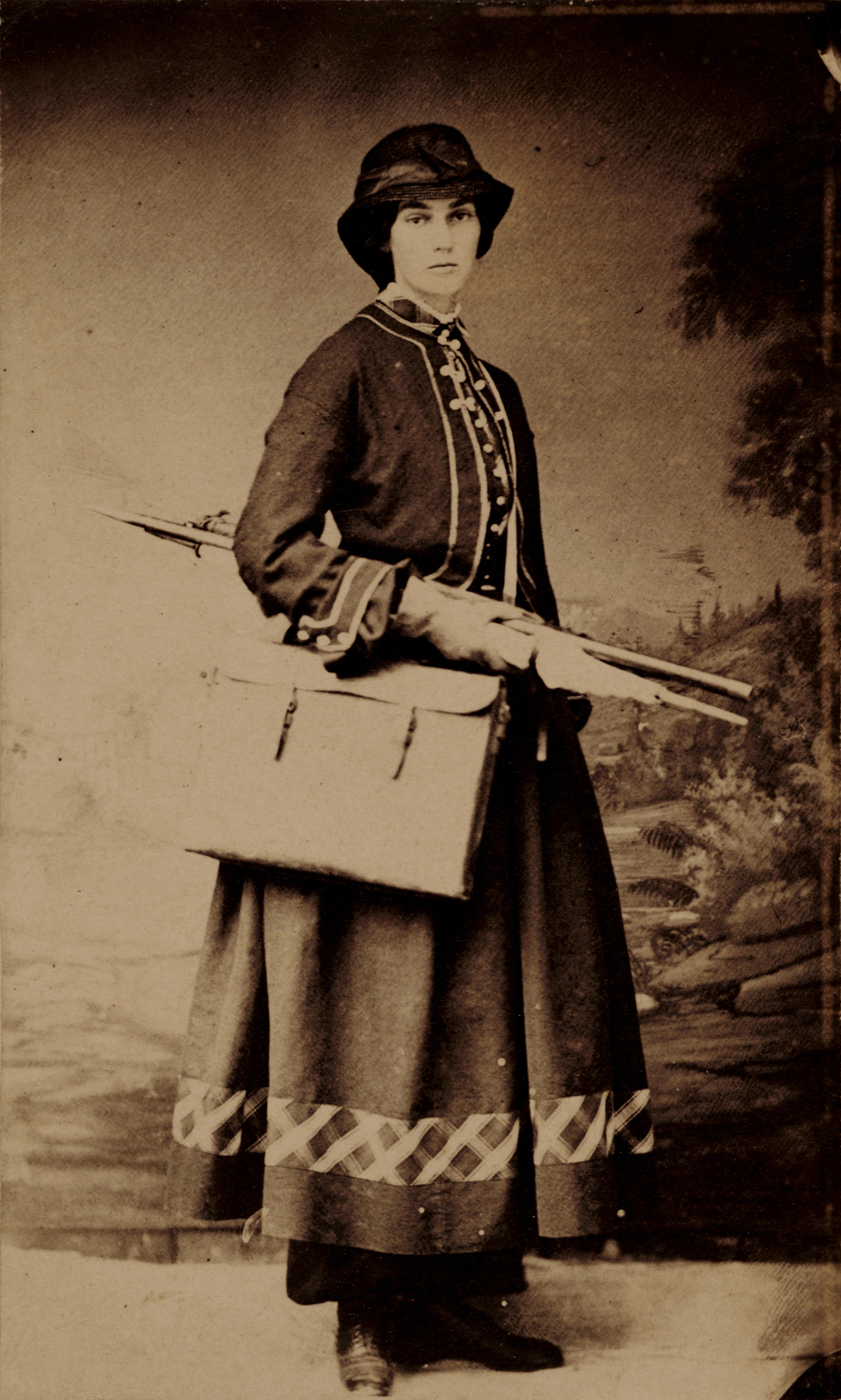 Portrait of Fidelia Bridges with portable easel and painting supplies standing in front of false background of a landscape. Fidelia Bridges, ca. 1864 / unidentified photographer. From the Ingraham Lay, Charles Downing Lay, and Lay family papers, Archives of American Art, Smithsonian Institution.